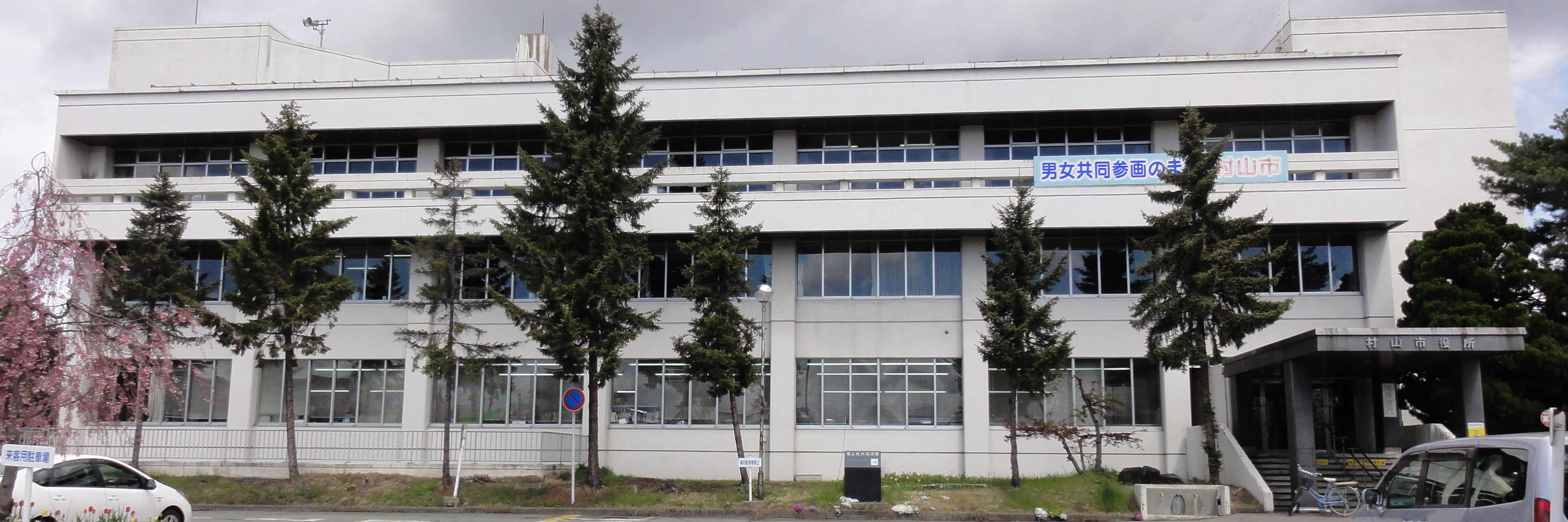 Murayama city office,Yamagata prefecture,Japan